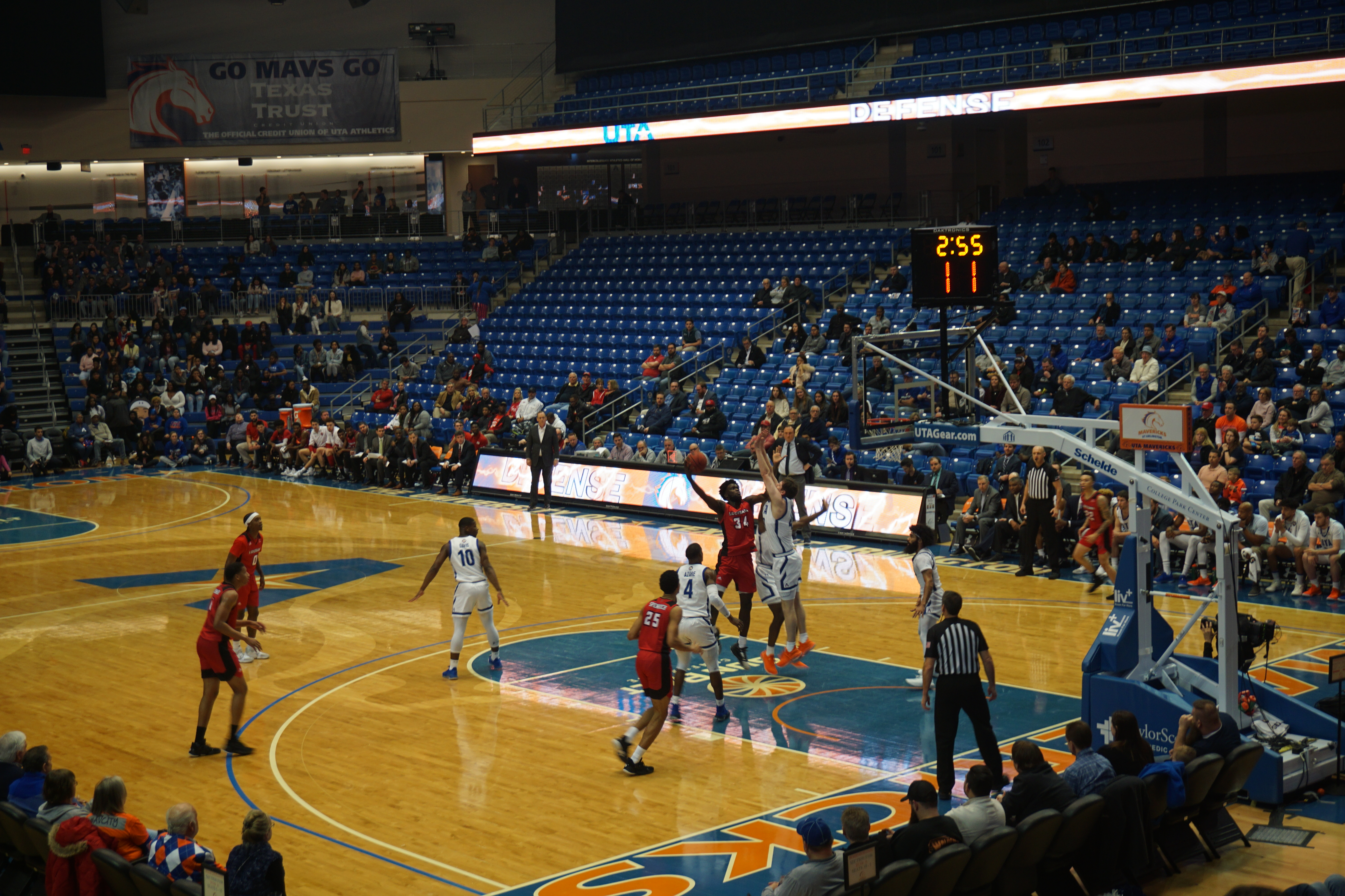 In-game action during the Louisiana Ragin' Cajuns vs. UT Arlington Mavericks men's basketball game at College Park Center in Arlington, Texas (United States). Louisiana won 66–65.